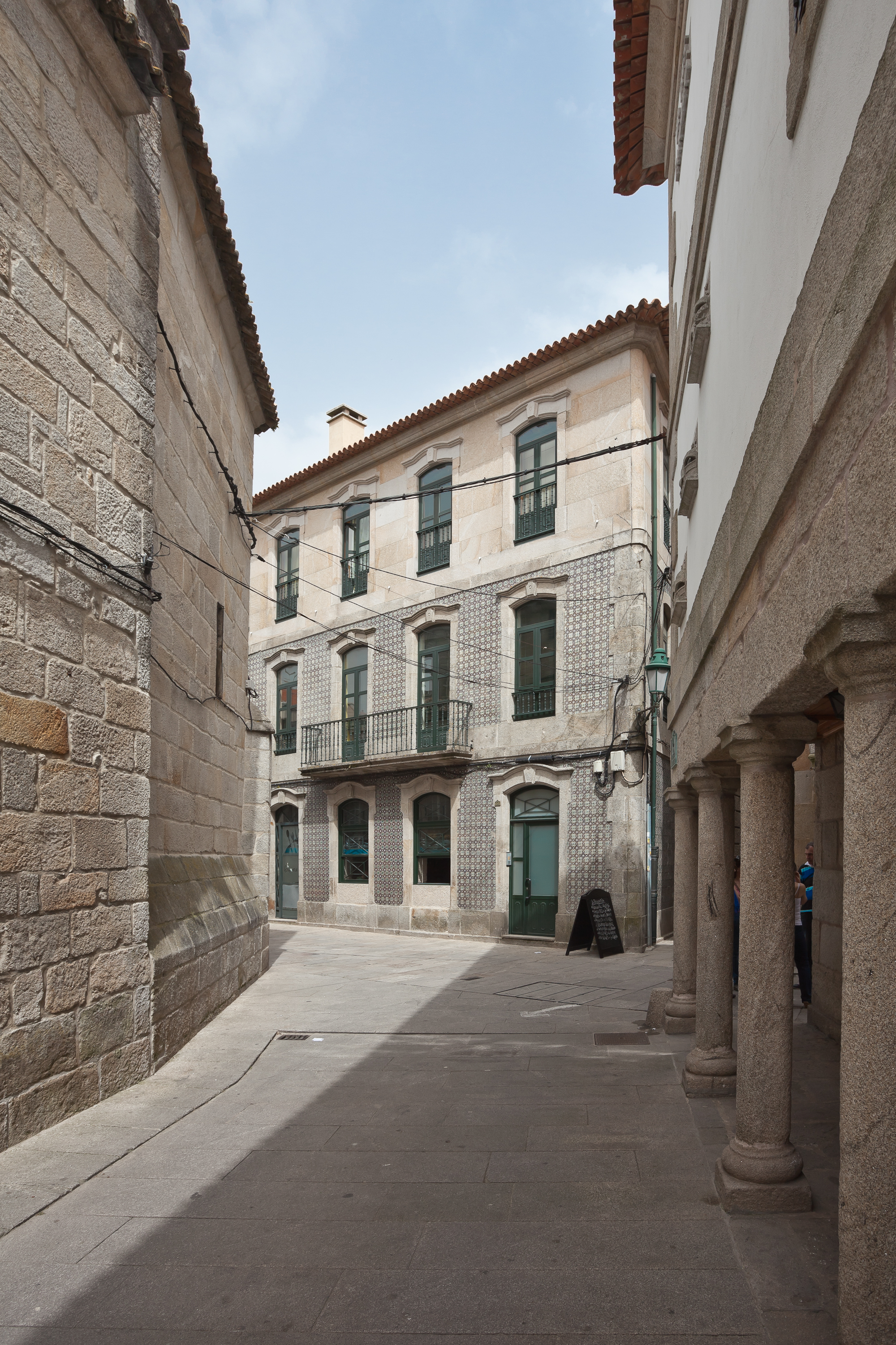 Street in Baiona, Galicia (Spain)